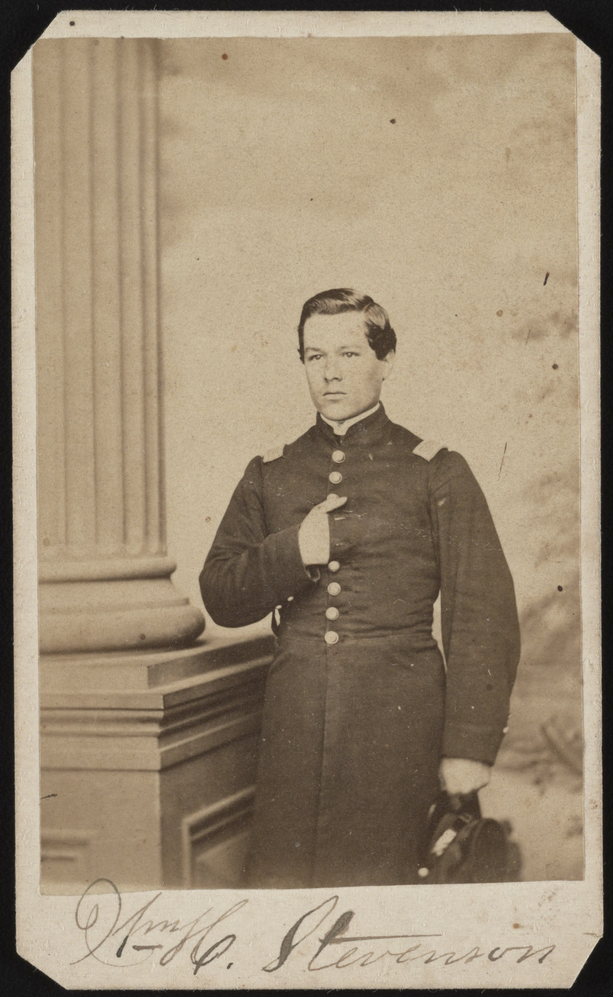 Title: First Lieutenant William H. Stevenson of Co. F, 118th New York Infantry Regiment, in uniform in front of painted backdrop] / Hollyland's Metropolitan Gallery, No. 250 Pennsylvania Avenue, Washington, D.C Abstract/medium: 1 photograph : albumen print on card mount ; mount 11 x 7 cm (carte de visite format)